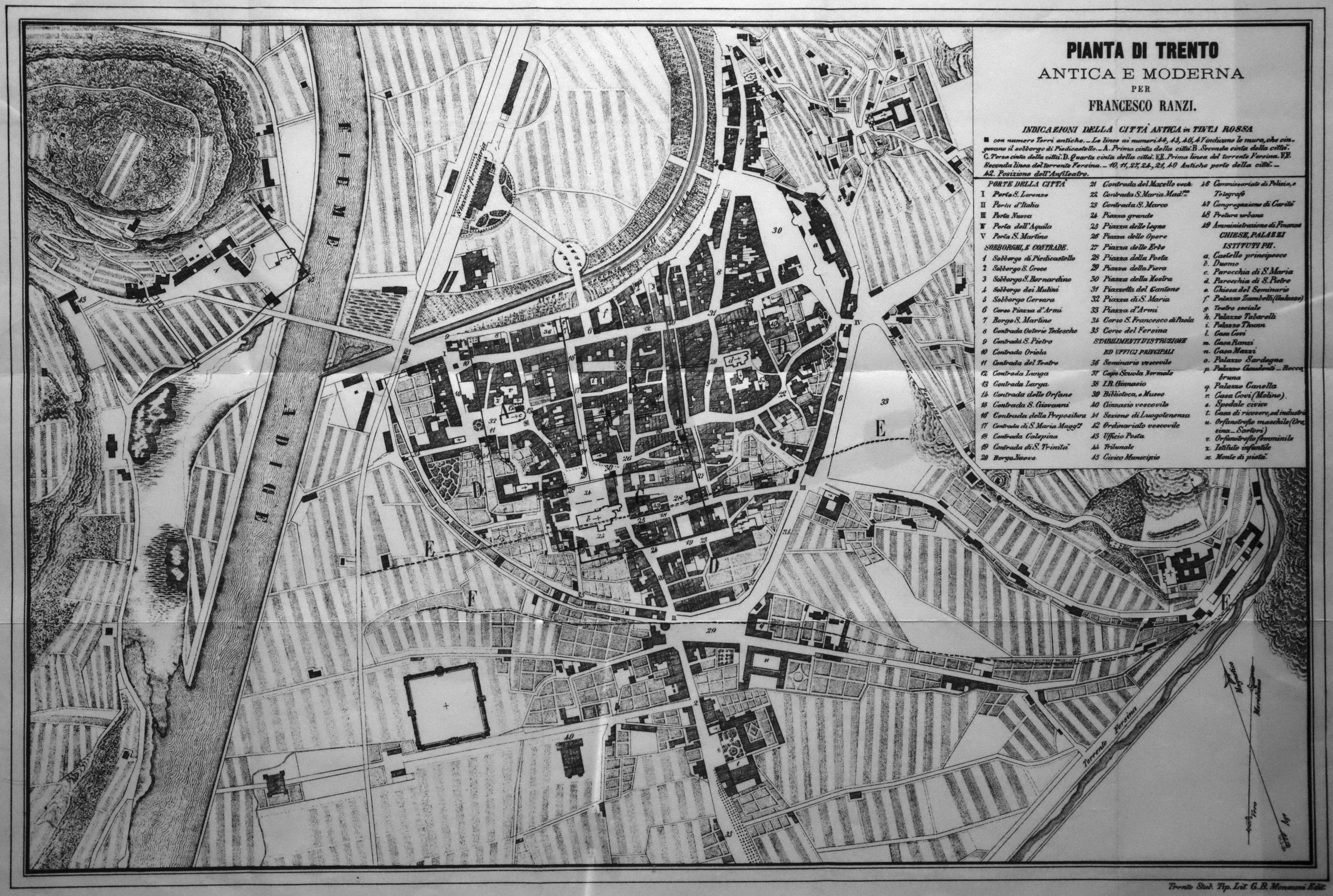 Trento (Italy): Francesco Ranzi (January 28 1816 - April 16 1882): Pianta di Trento Antica e Moderna (Map of Ancient and Modern Trento), from an anastatic reprint of Francesco Ranzi, Pianta Antica della Città di Trento. Osservazioni e memorie di Francesco Ranzi imprenditore, 1869, G.B.Monauni. The anastatic reprint is again by editor G.B.Monauni, 1975.